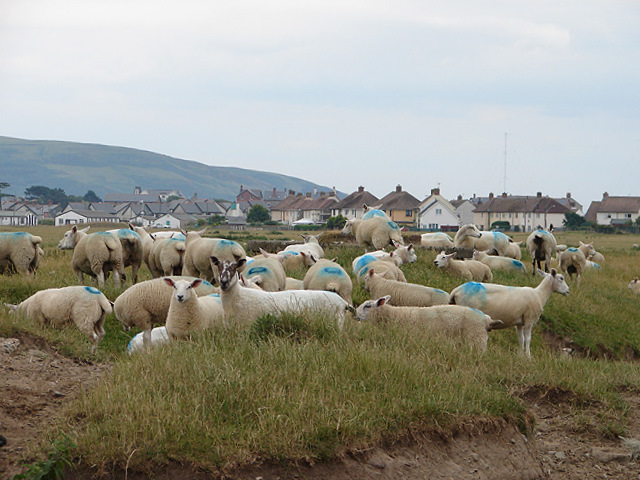 Sheep near Tywyn Rare 'blue-backed' breed!